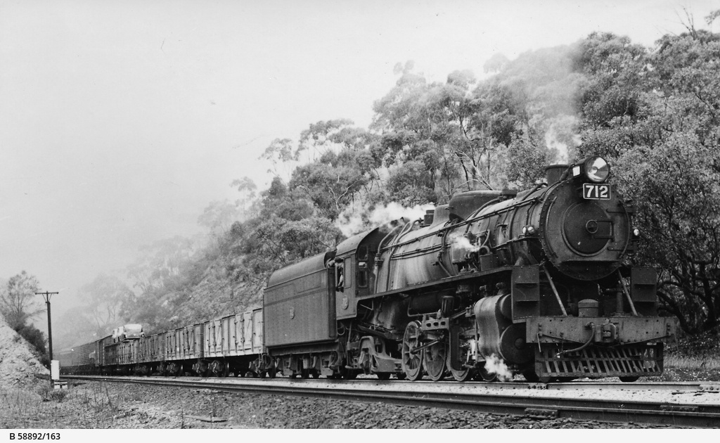 Goods train No.712 at Eden Hills, South Australia, 1951.